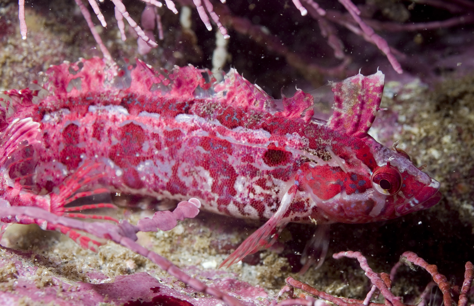 Kelpfish (Gibbonsia sp.) blending in with coralline algae.